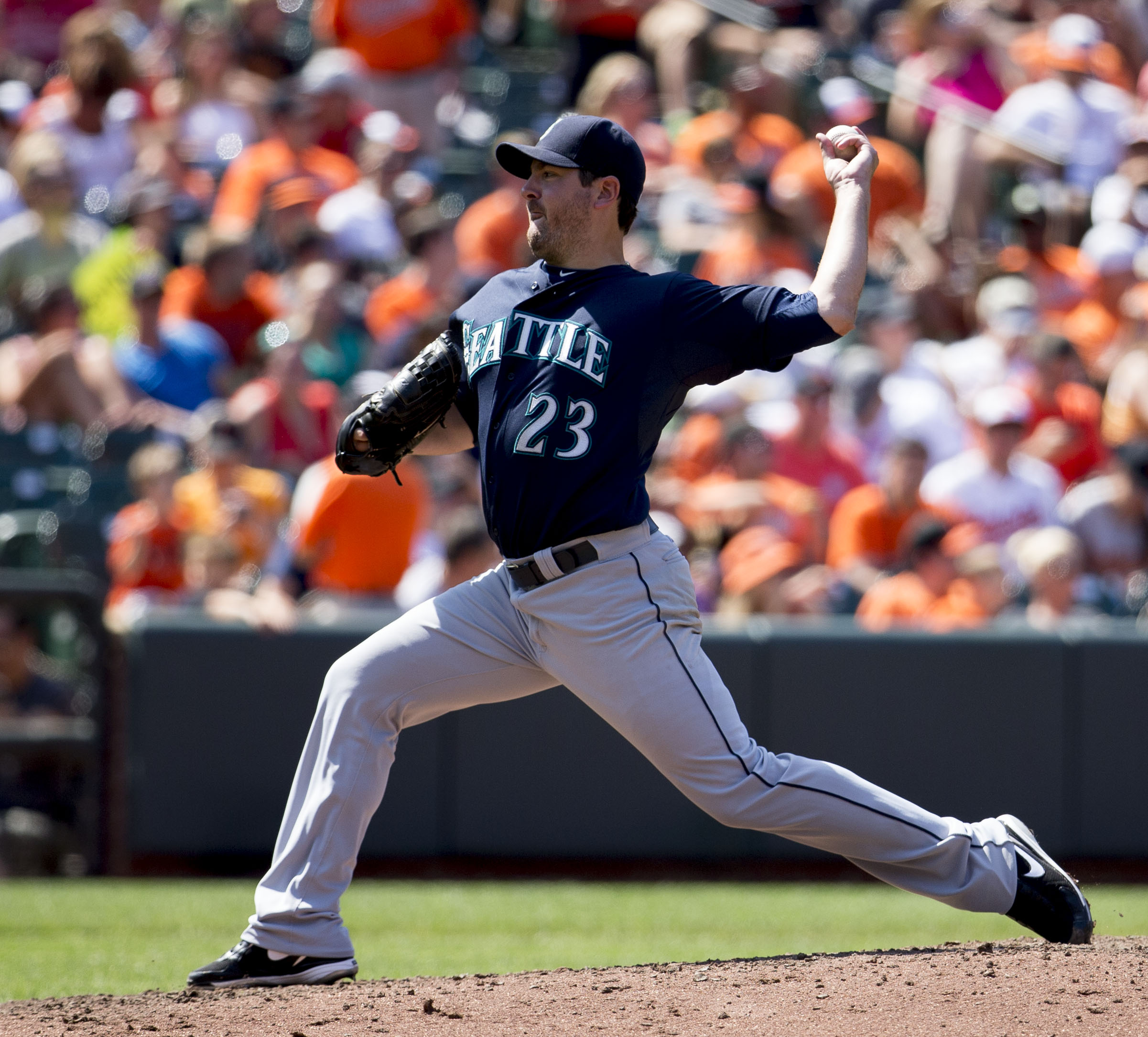 Saunders against his former team, Baltimore on August 4th, 2013.